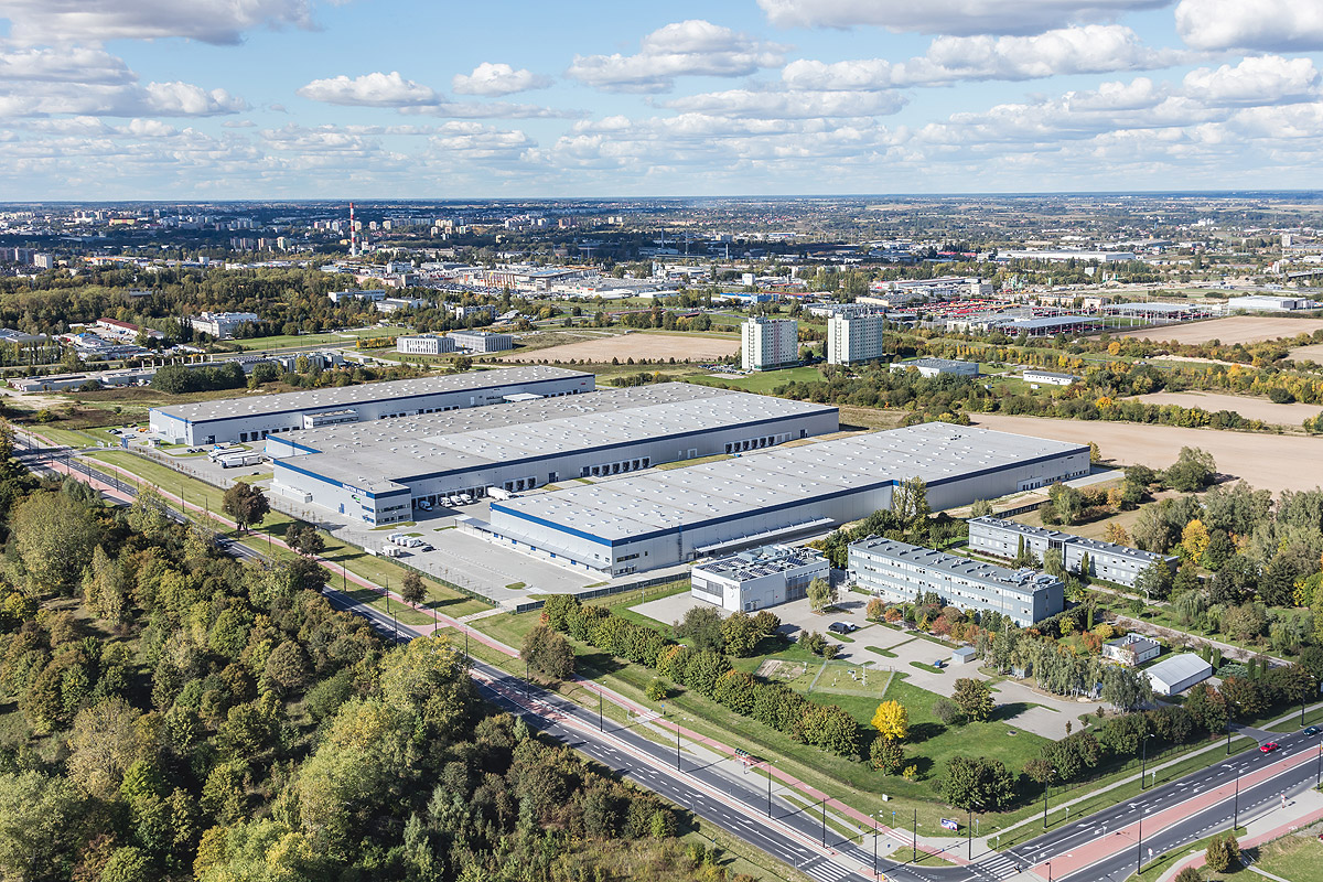 The picture of Accolade industrial park in Lublin